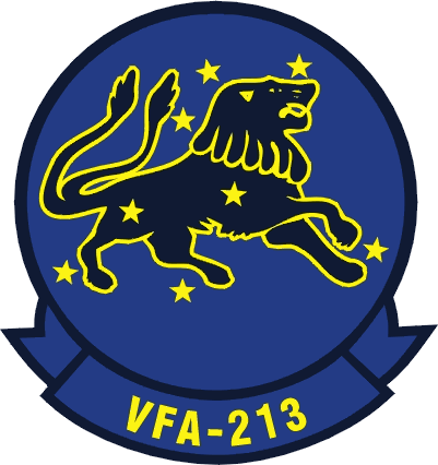 Insignia of the U.S. Navy Strike Fighter Squadron 213 (VFA-213) "Blacklions".